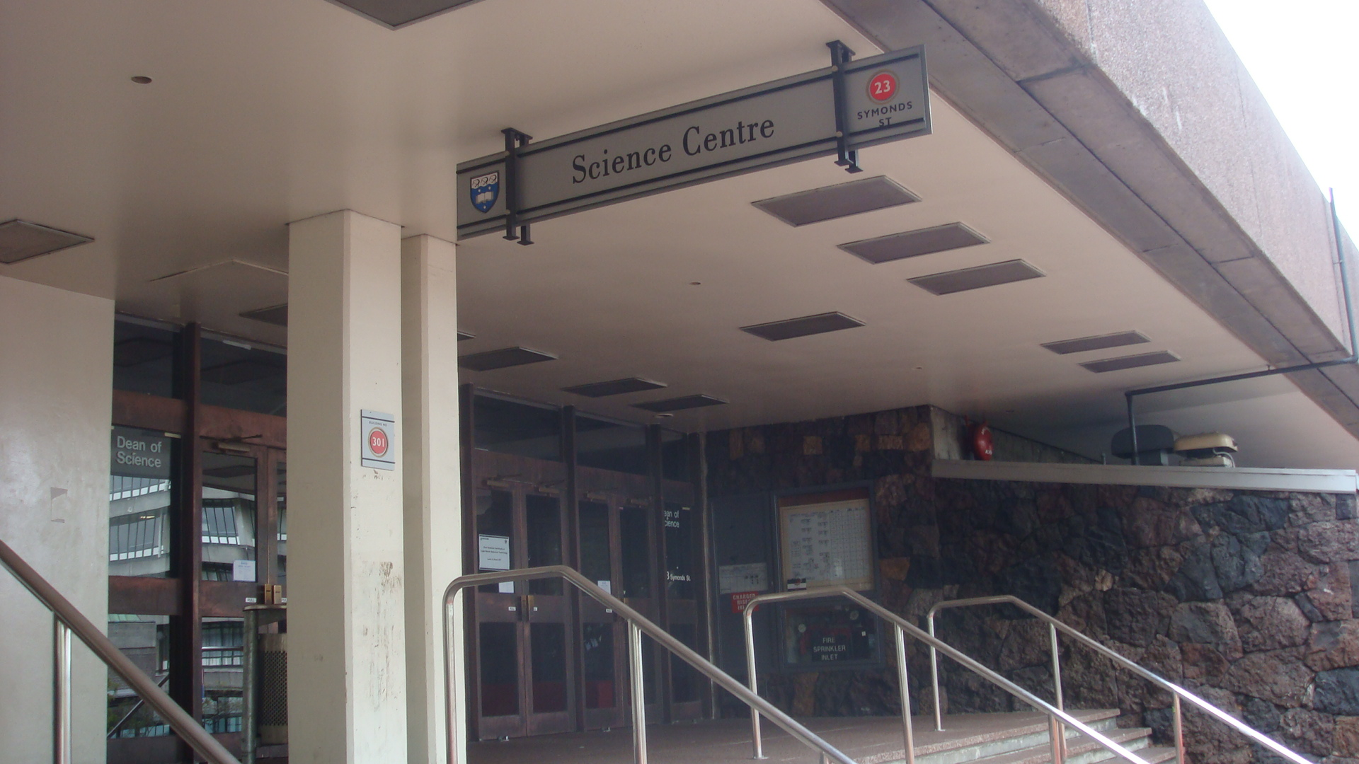 The main Symonds Street entrance to the University of Auckland's Science Centre building (building 301), 23 Symonds Street, Central Auckland.